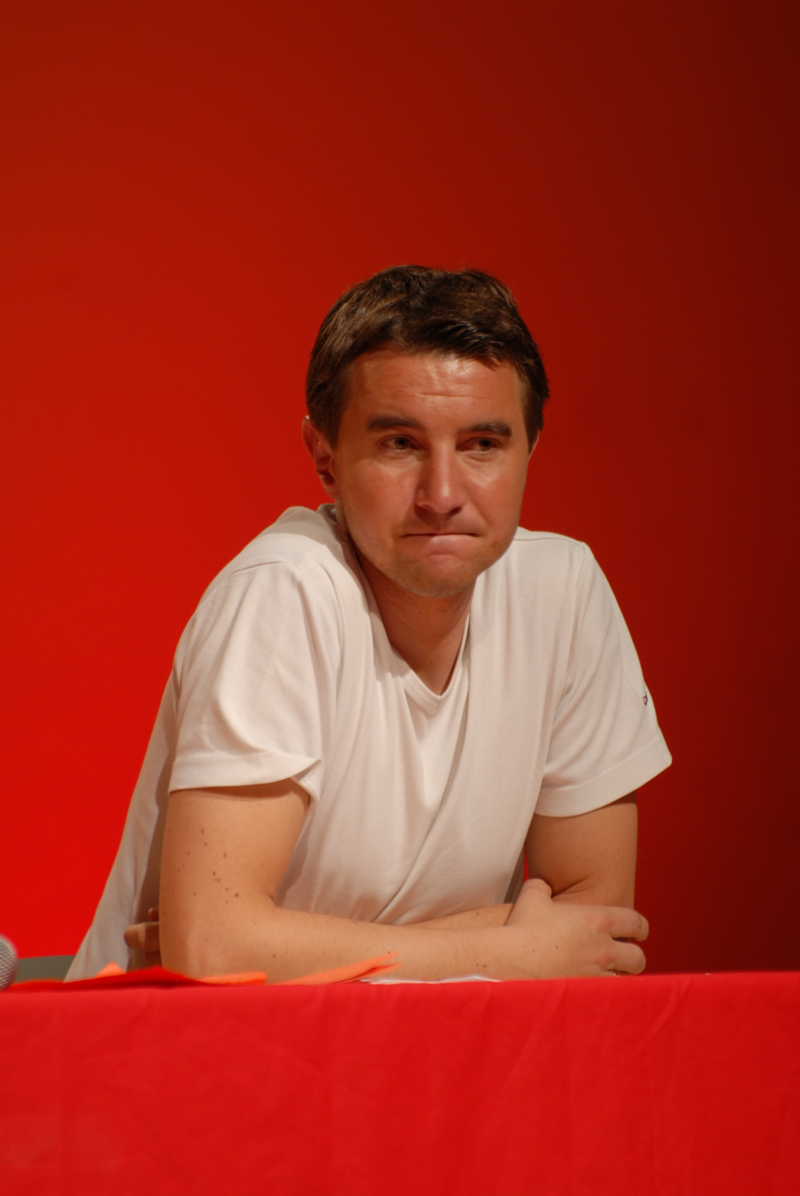 Olivier Besancenot during his meeting in Toulouse on April, 20th 2007 for the 2007 presidential election.